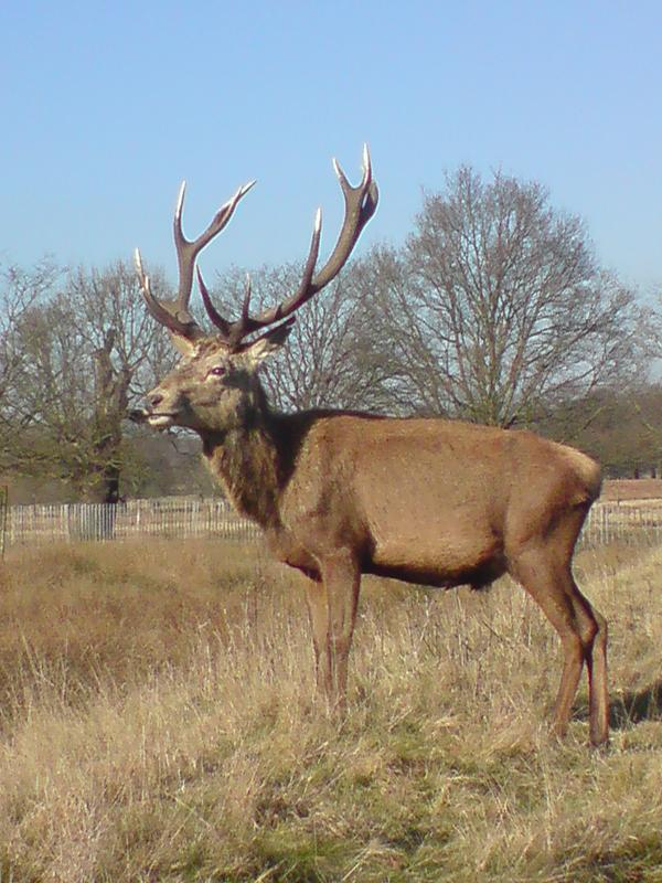 A male Western European Red Deer (Cervus elaphus elaphus) in Richmond Park, England.